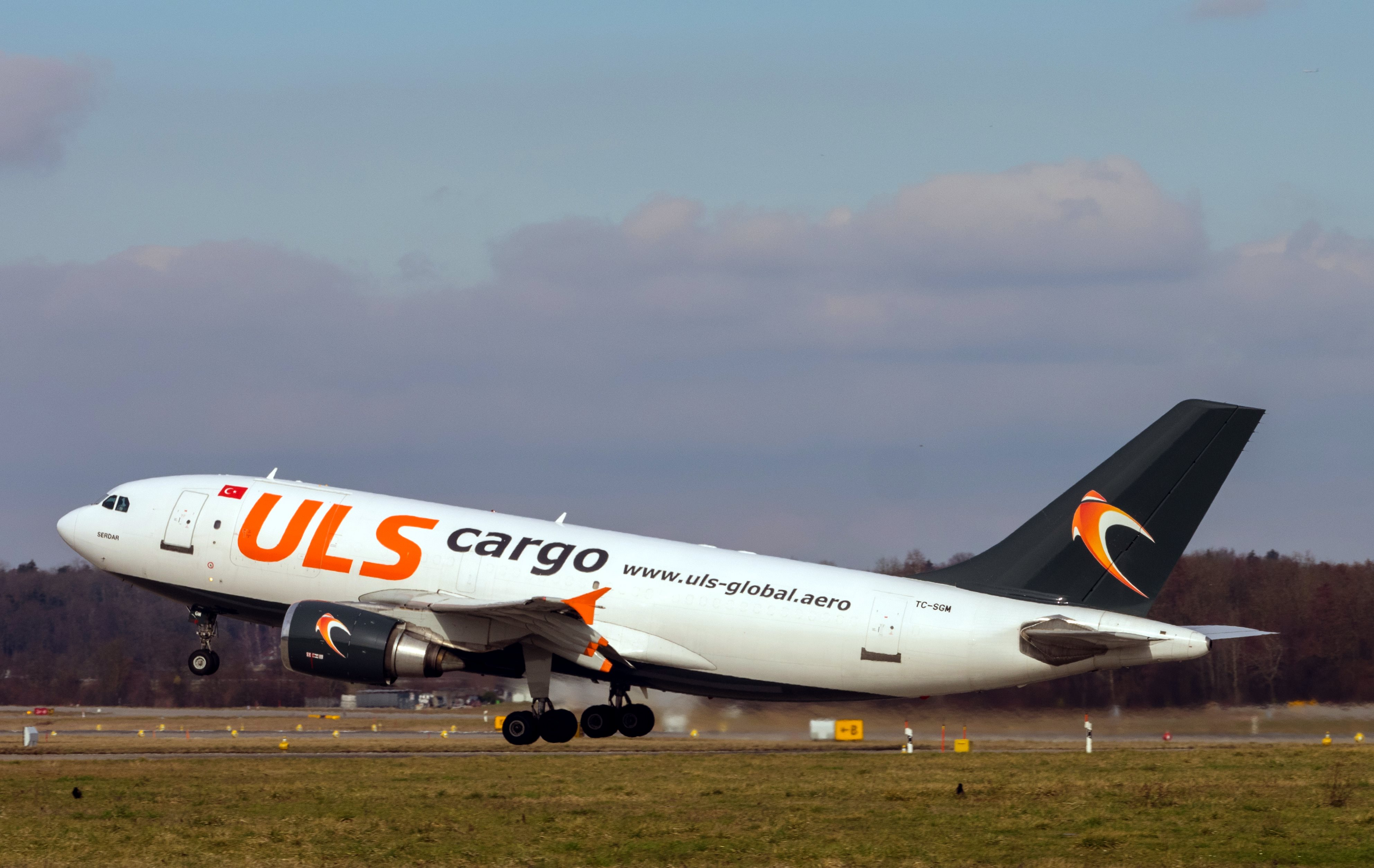 ZRH 12.02.2016